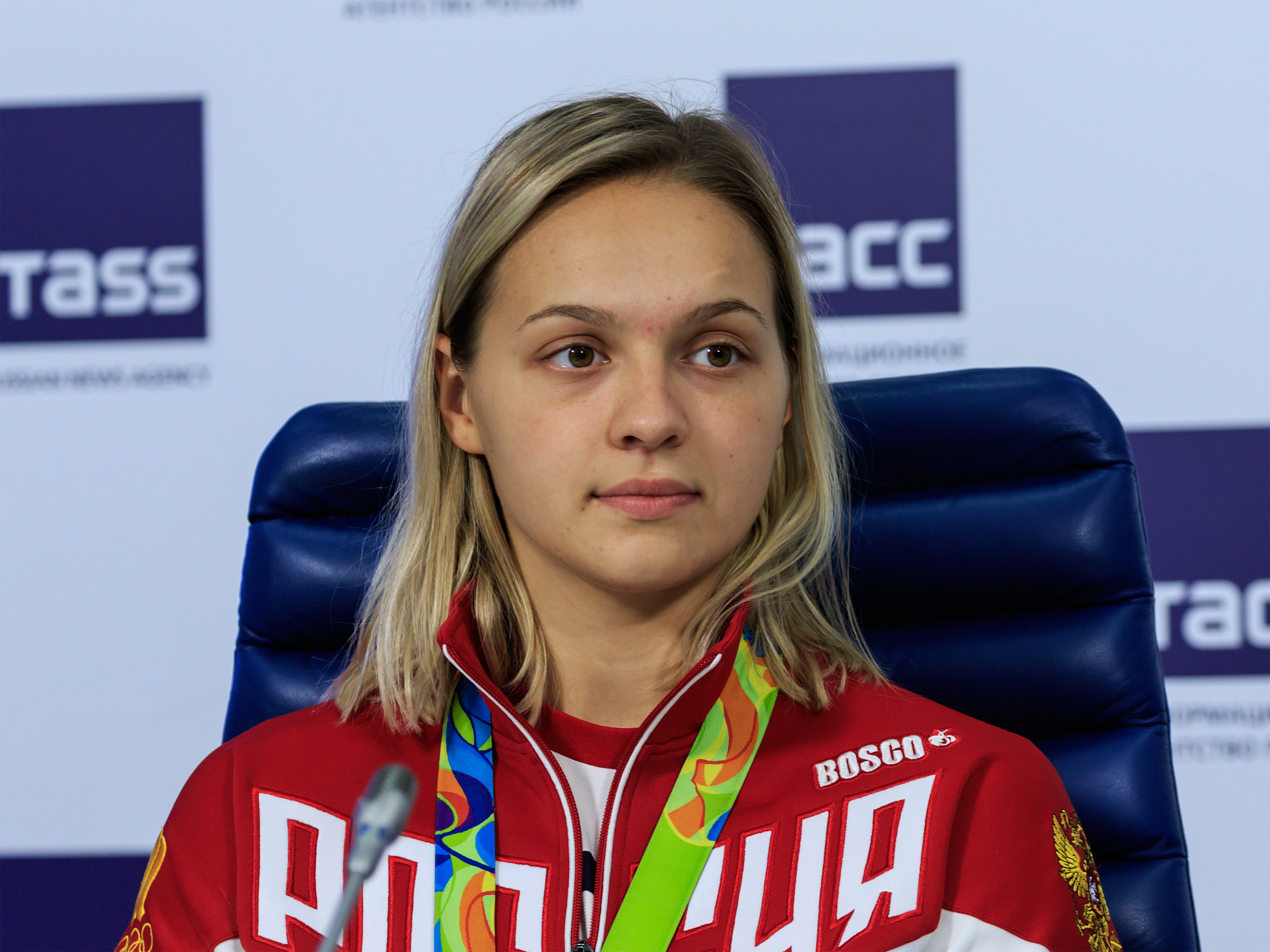 Darya Dmitrieva (b. 1995) is a handballer from Russia